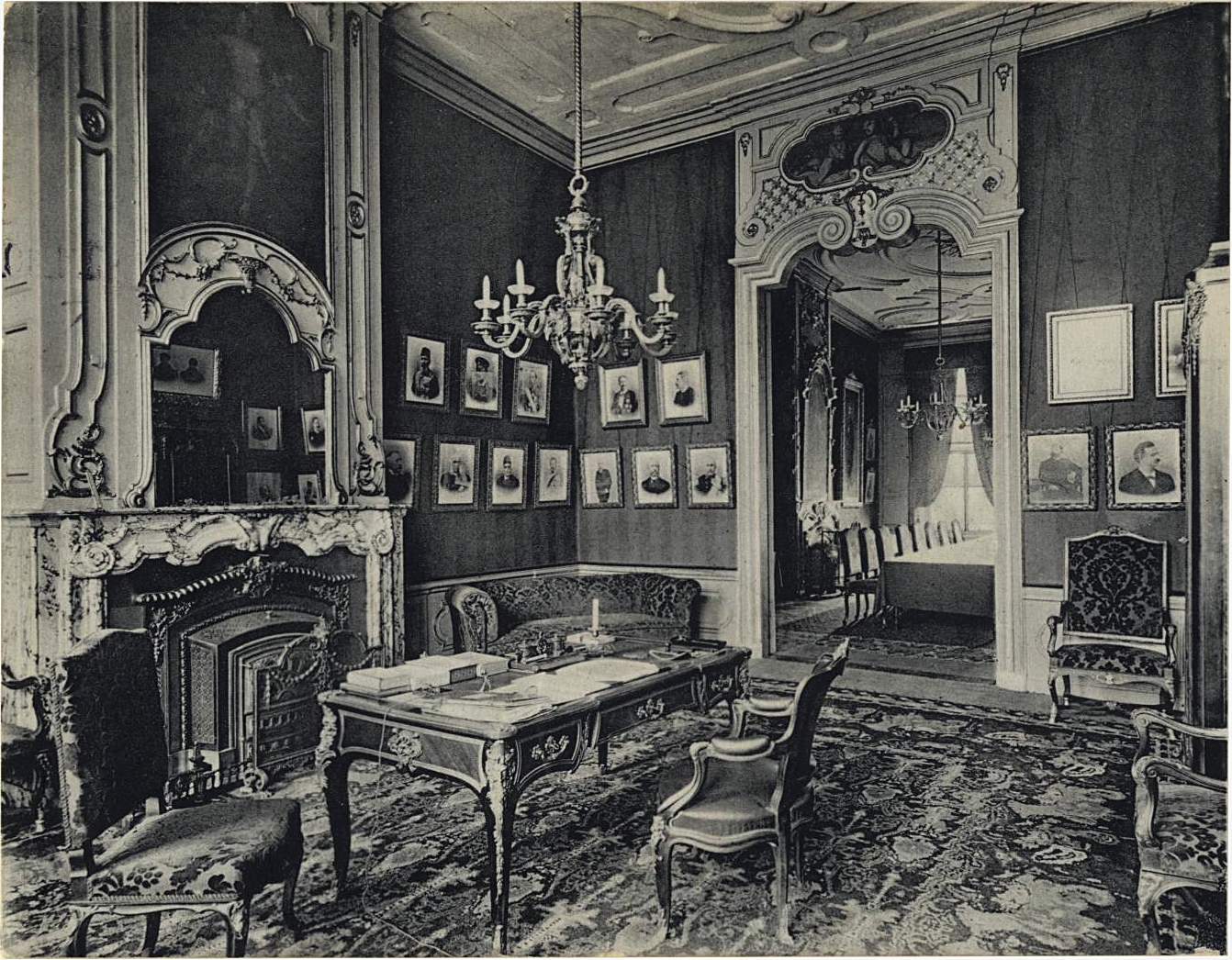 Interior of the Permanent Court of Arbitrage, which was housed in 1901 at the Prinsegracht 71 in The Hague, the Netherlands, until in 1913 it could move into the Peace Palace.